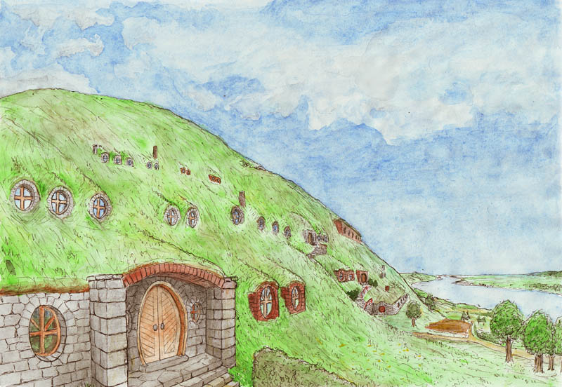 Brandy Hall